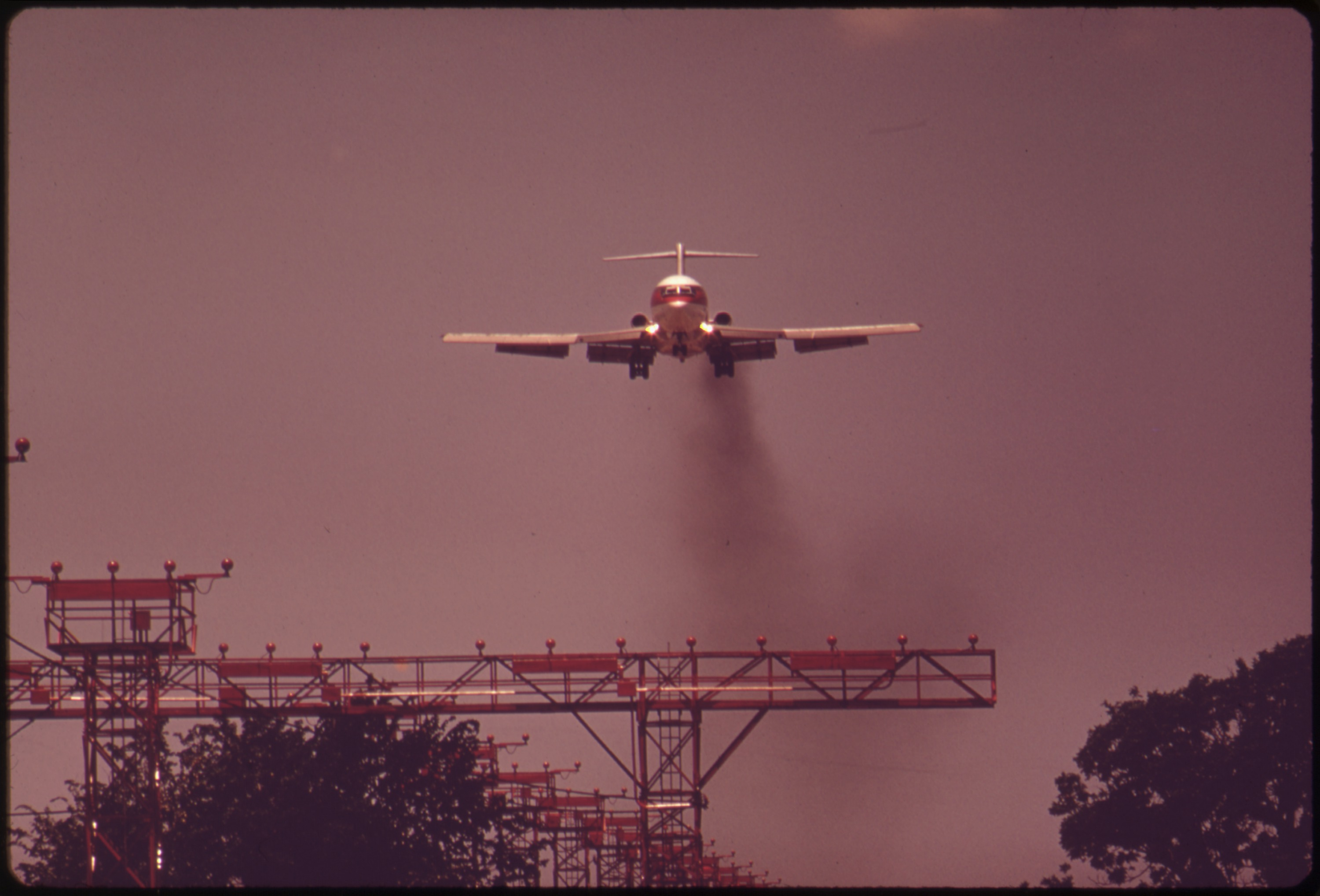 A jet aircraft, probably Boeing 727, approaching Dallas Love Field.